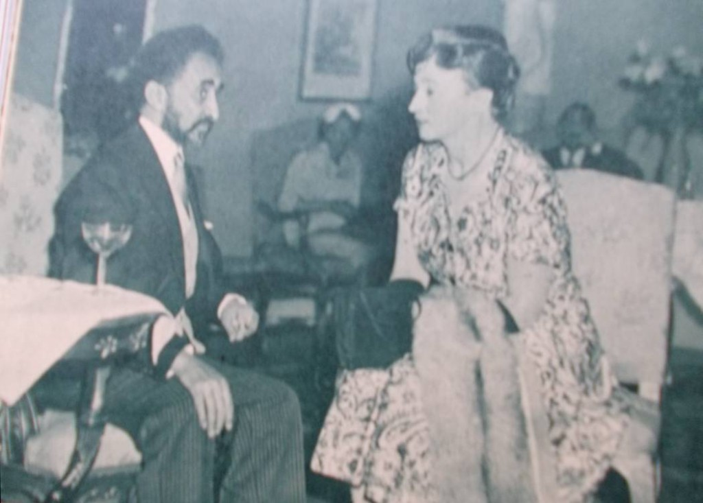 Haile Selassie and Swedish artist Gunila Stierngranat (1902-1960)